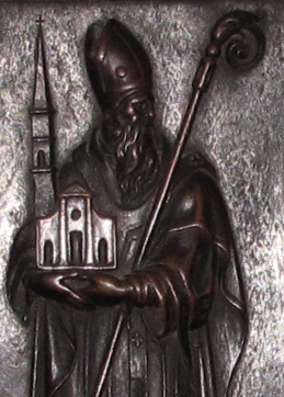 Castritian (bishop of Milan) - wooden statue in the Choir (1567-1614) of the Cathedral of Milan